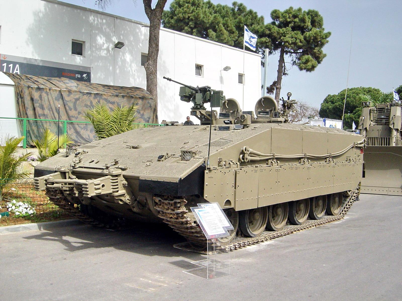 Namer - Israeli Merkava-based Armored Personnal Carrier (APC) \ Infantry Fighting Vehicle (IFV) נמ"ר - נגמ"ש מרכבה